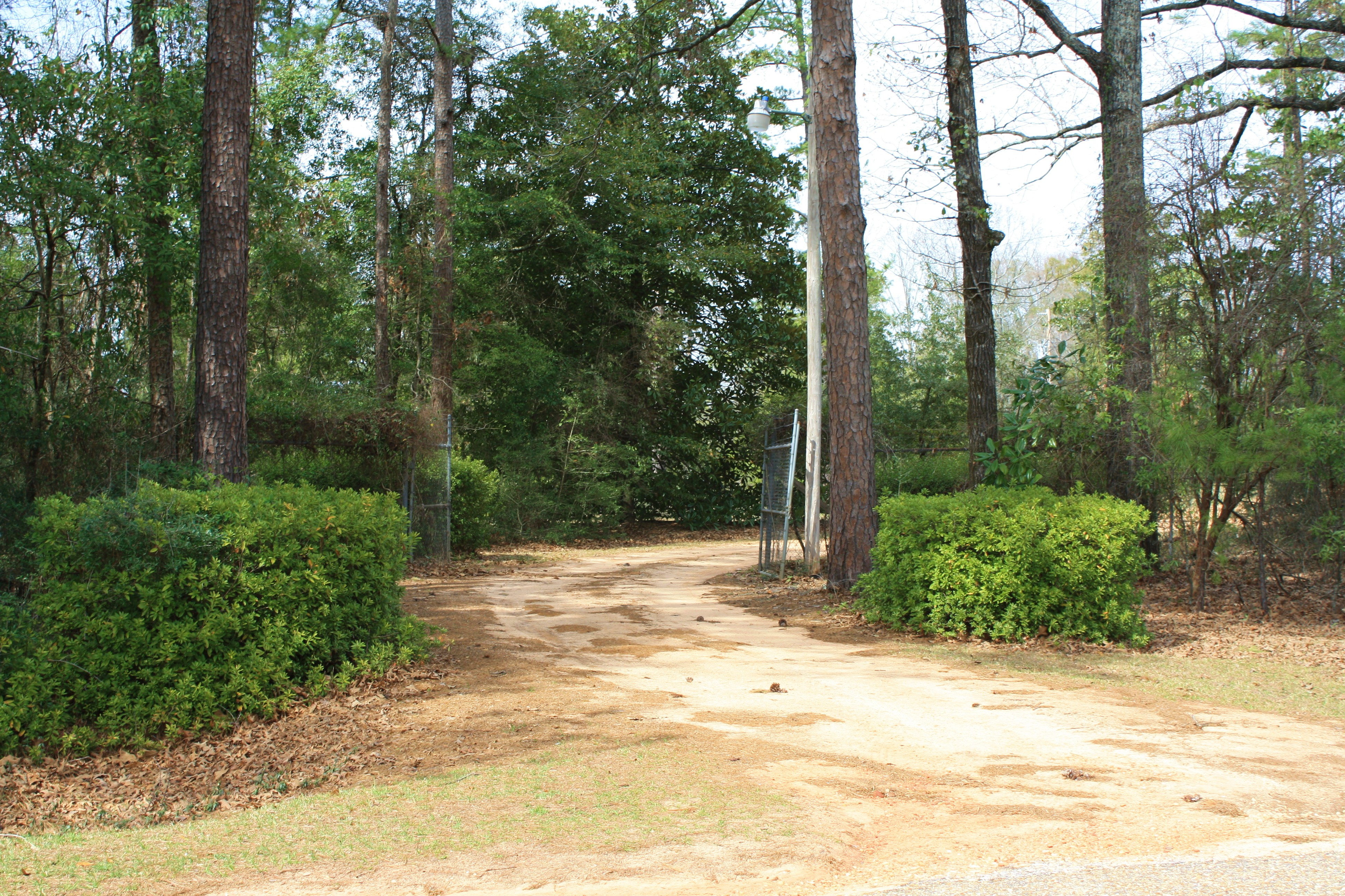 Entrance gate for the Stephen Beech Cleveland House in Suggsville, Clarke County, Alabama. The house is listed on the National Register of Historic Places.